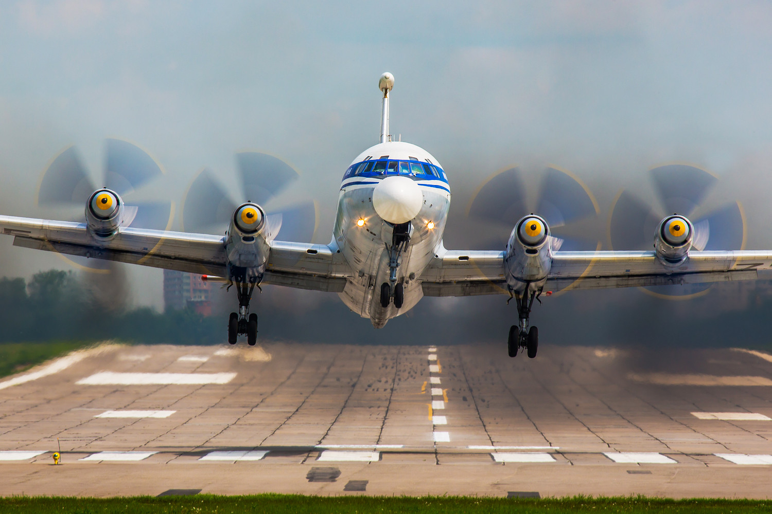 Russian Navy Ilyushin Il-22 (RF-75337) takes off at Ostafiyevo Airport